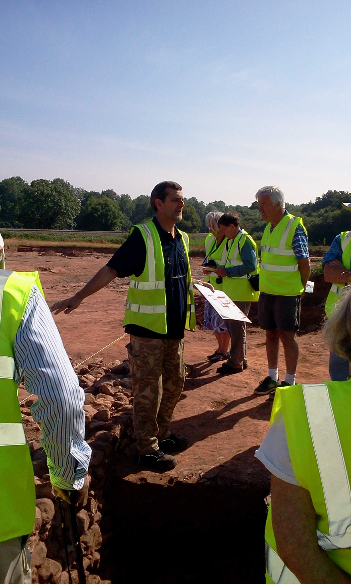 Wessex Archaeology explains the site